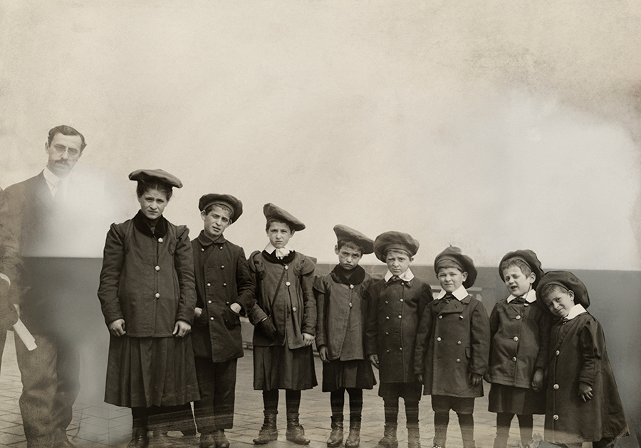 A man stands next to orphaned Russian Jews upon immigration to the U.S., New York, July 1919.No Credit Given